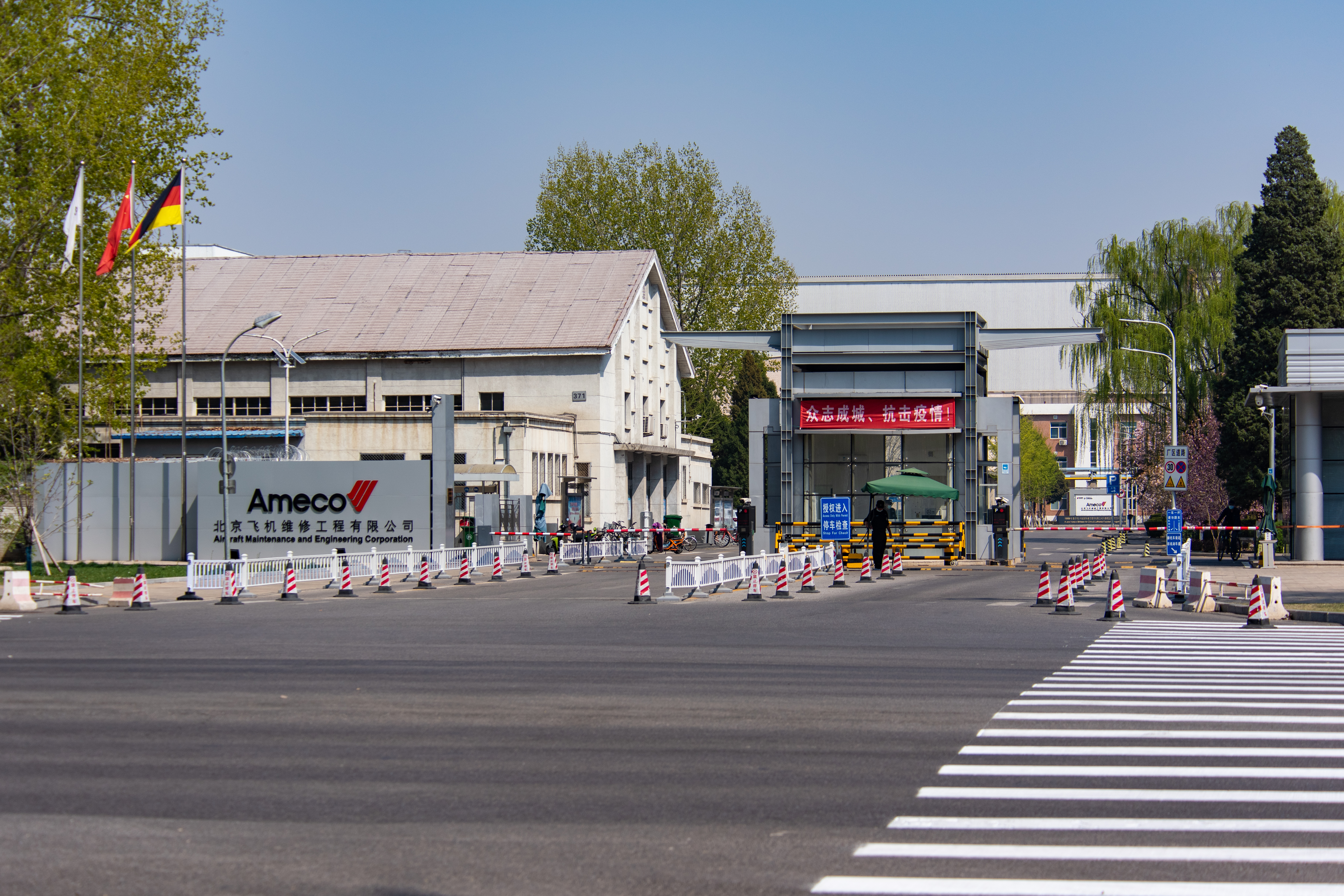 Ameco's birthday is 1989-08-01 for sure!